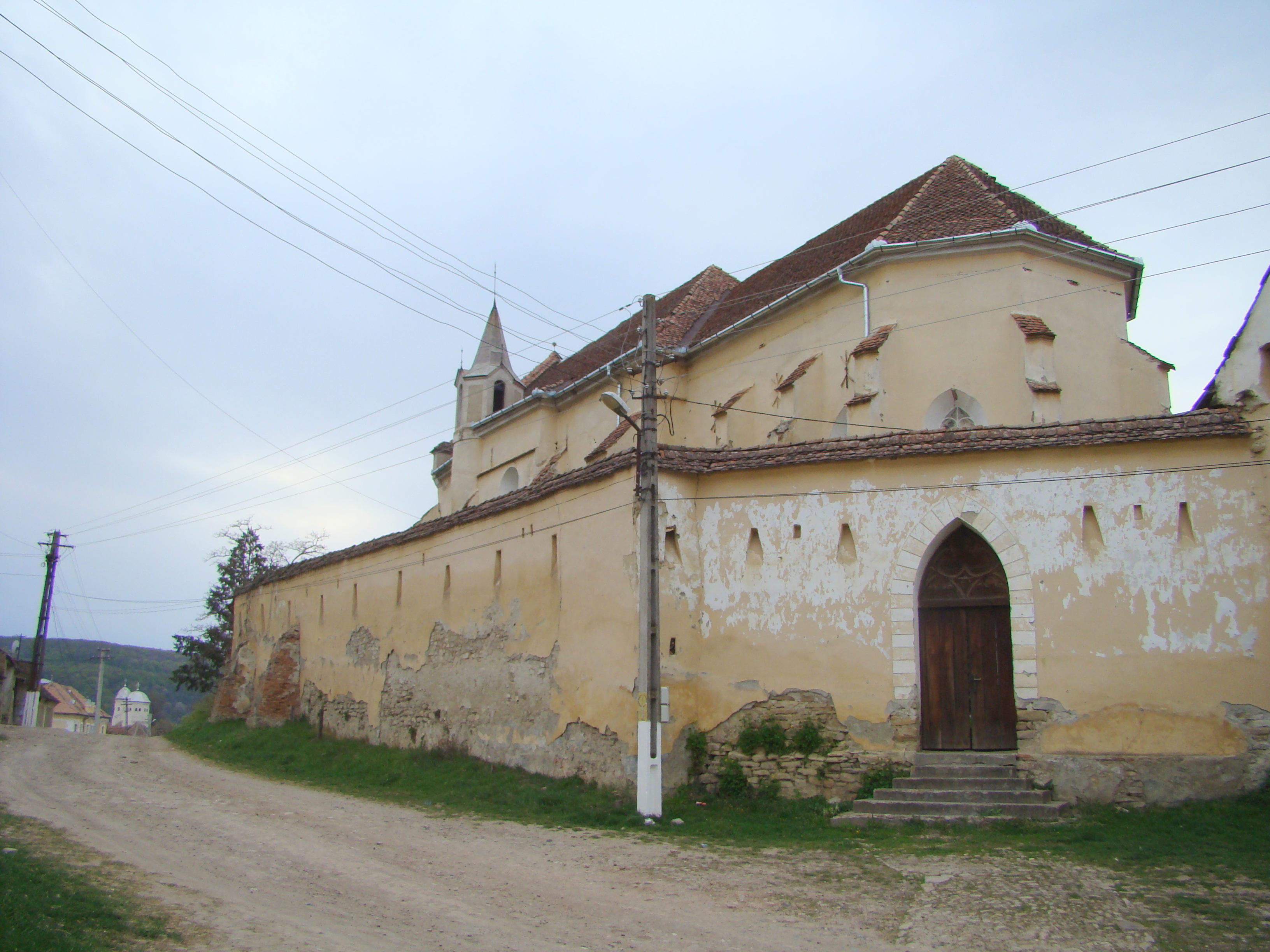 Lutheran church in Daia, Mureș county, Romania